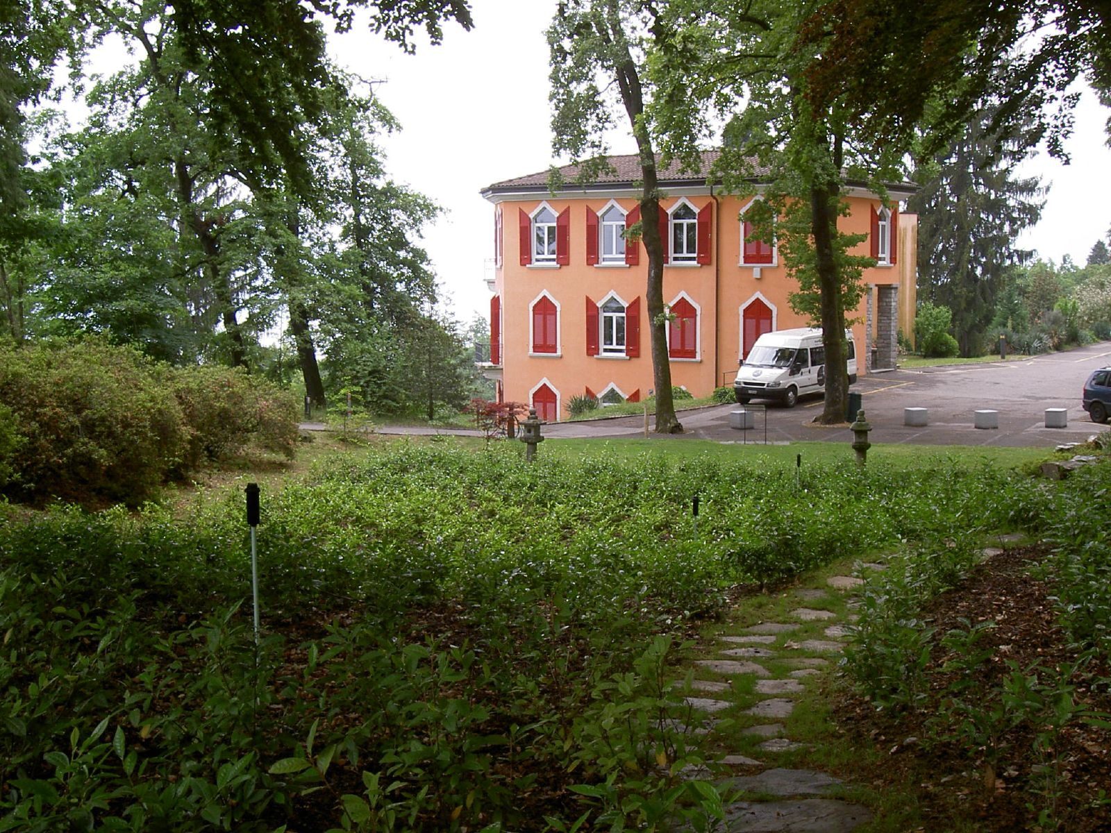 Looking out for historical artefacts on the Monte Veirtà above Ascona, Switzerland. Villa Semiramis, today a part of the hotel and conference complex.